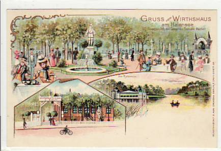 Poster of the Concordia Dancing local in Halensee, 1900